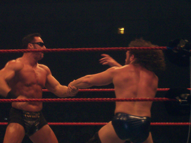 Rob Conway & Eugene @ Adelaide, South Australia 'RAW' house show on the 28th of October '05